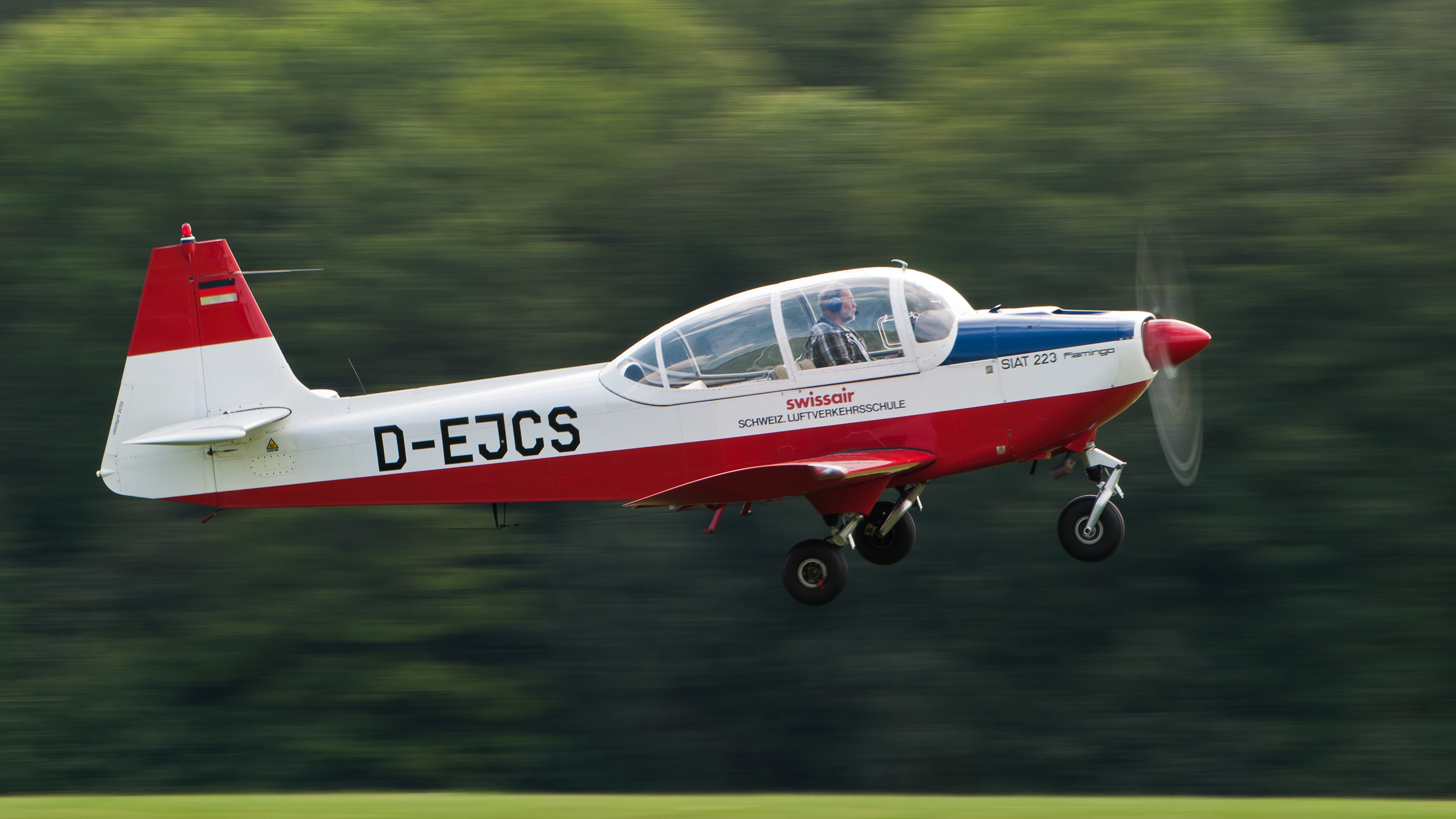 Siat 223 Flamingo (reg. D-EJCS, built in 1968). Engine: Lycoming IO 360.